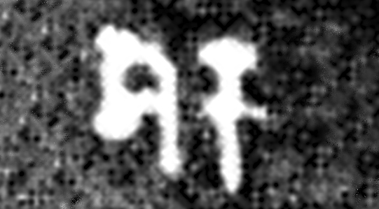 Allahabad pillar Samudragupta inscription Shaka word in Line 23